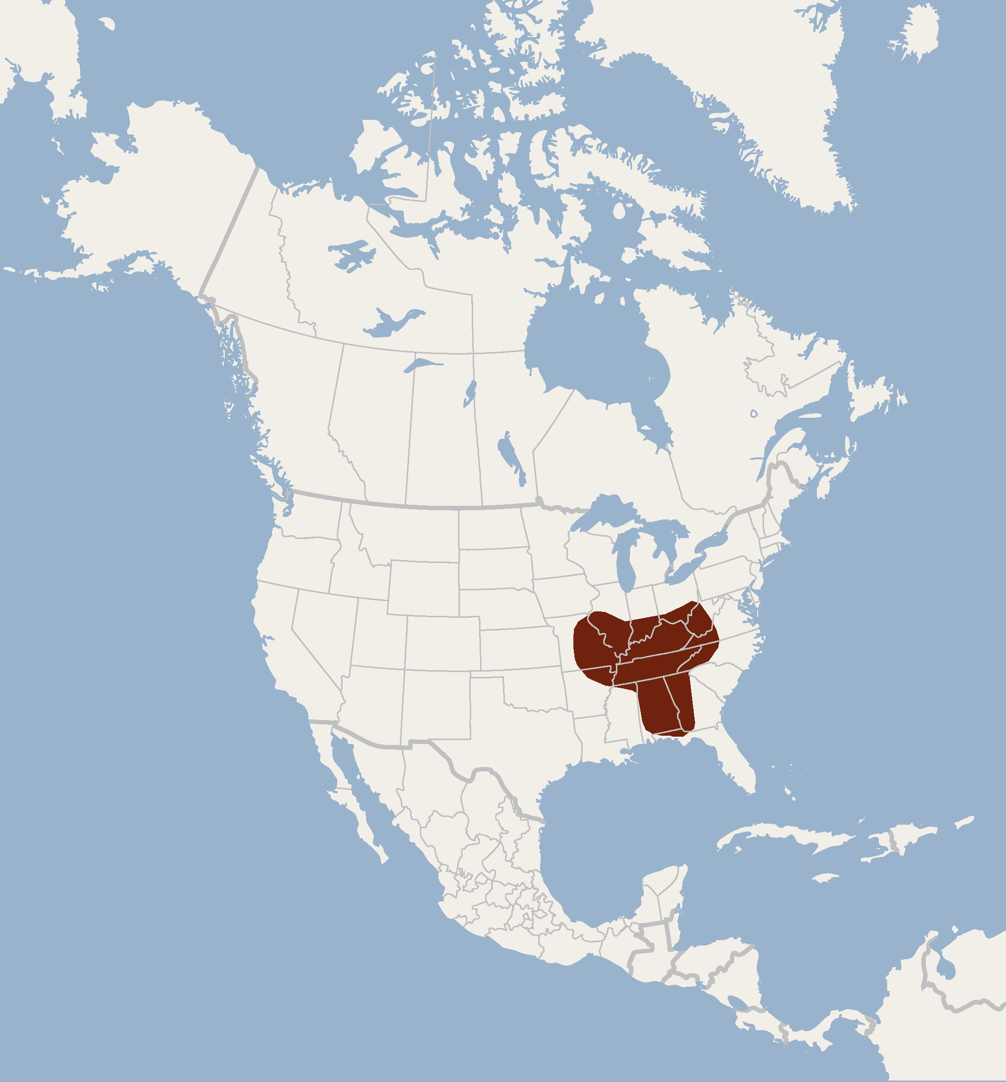 Geographical distribution of Myotis grisescens according to Kays & Wilson, 2009